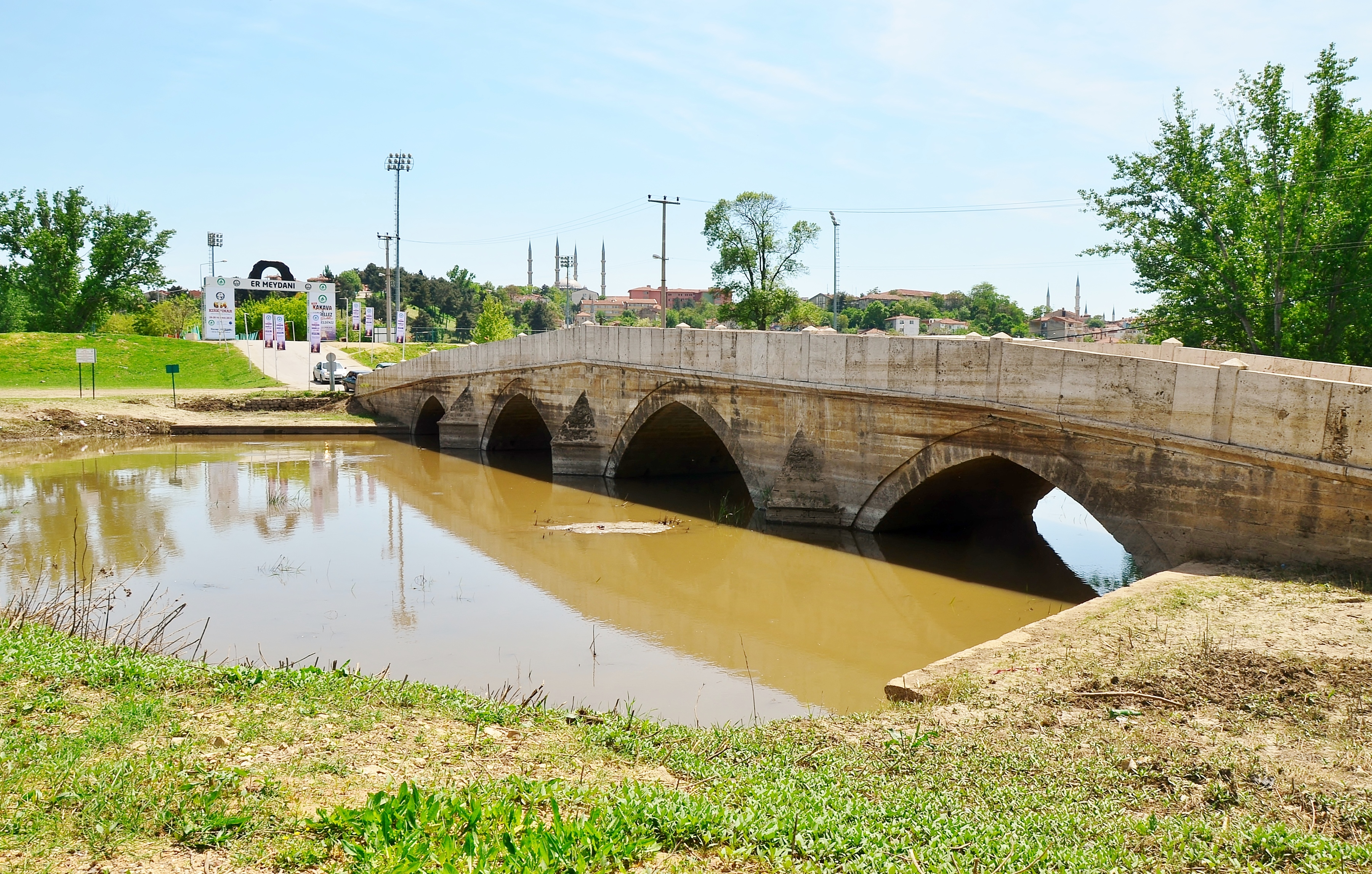 Kanuni Bridge over the Tunfzha in Edirne, Turkey